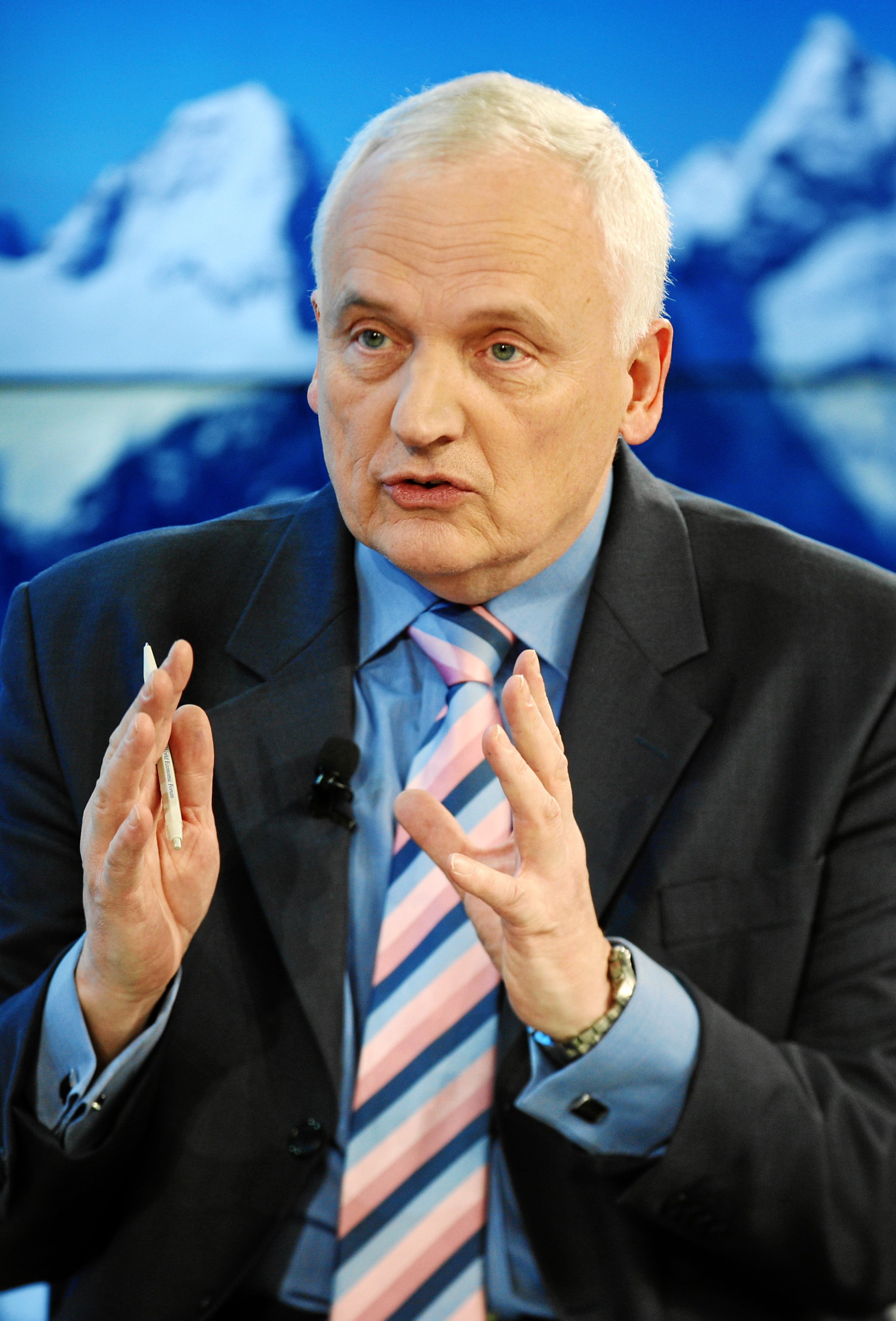 DAVOS/SWITZERLAND, 28JAN12 - Nik Gowing, Main Presenter, BBC World News, United Kingdom gestures during the session 'How Immune Is India?' at the Annual Meeting 2012 of the World Economic Forum at the congress centre in Davos, Switzerland, January 28, 2012. Copyright by World Economic Forum by Sebastian Derungs